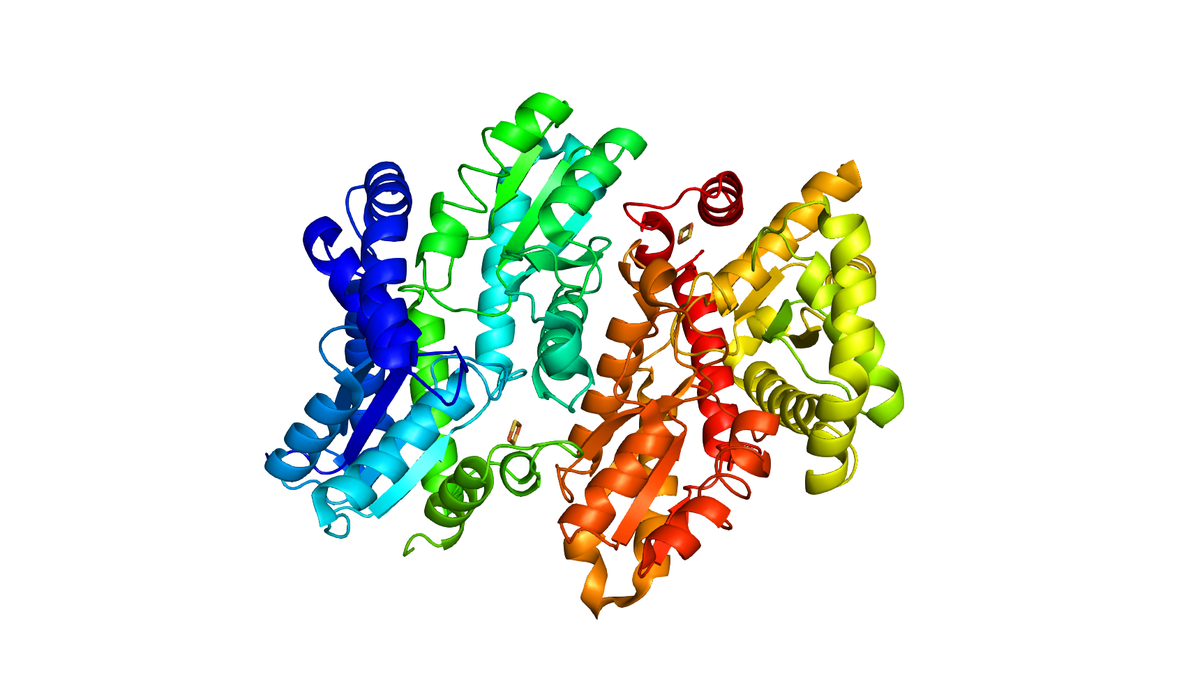 Human Ferrochelatase 2 angstrom crystal structure. Generated from 1HRK (RCSB PDB) using Pymol.